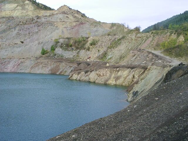 Flooded iron ore mine in Vareš, BiH